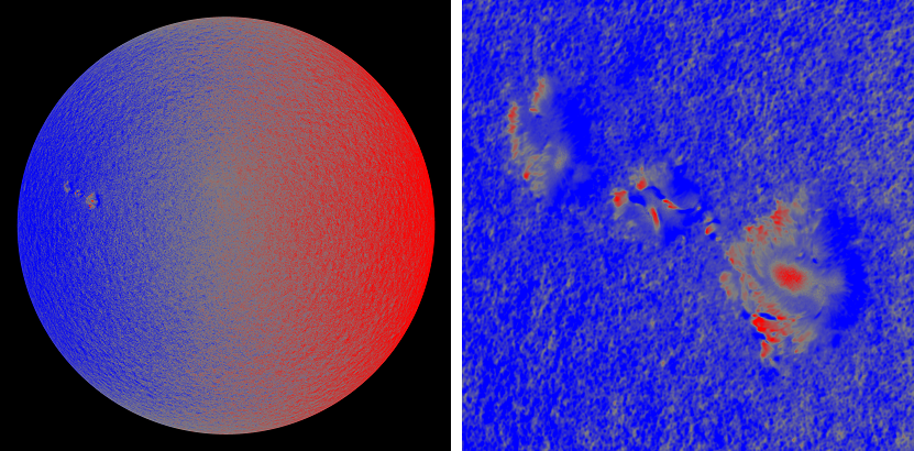 The Solar Dynamics Observatory (SDO) observes the Sun with many different instruments, in many different wavelengths of light. Many of these capabilities are not possible for ground-based observatories - hence the need for a space-based observing platform. The Helioseismic Magnetic Imager (HMI) aboard the Solar Dynamics Observatory takes a series of images every 45 seconds in a very narrow range of wavelengths in visible light of the solar photosphere. The wavelengths correspond to a region around the 6173 Ångstroms (617.3 nanometers) spectral line of neutral iron (Fe I). From this series of images, it constructs a set of images which extract other characteristics of the photosphere. For this dataset, it measures the shifting of the spectral lines to determine the velocity of gas flows on the solar surface. This spectral line shift is due to the Doppler effect. Blue represents motion towards the observer. Red indicates motion away from the observer. In images above, the color is dominated by the solar rotation, so the solar limb on the right is moving away from us (and therefore red) while the left limb is moving towards us (and therefore blue). Motions on the solar surface generate the rippling in the color and you can see evidence of surface flows around the sunspot near the left limb.